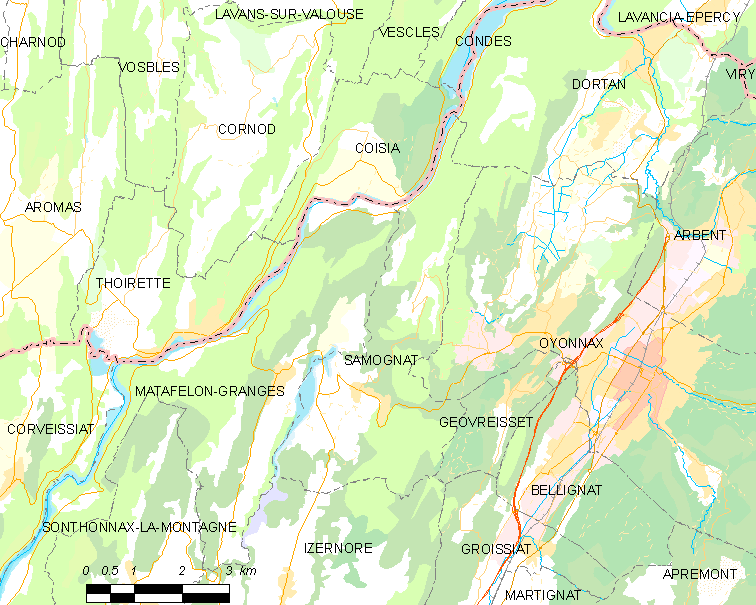 Map of French commune: Samognat Map commune FR insee code 01392.png